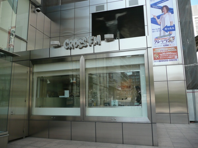 CROSS FM (JORV-FM) Tenjin Kirameki Street Studio